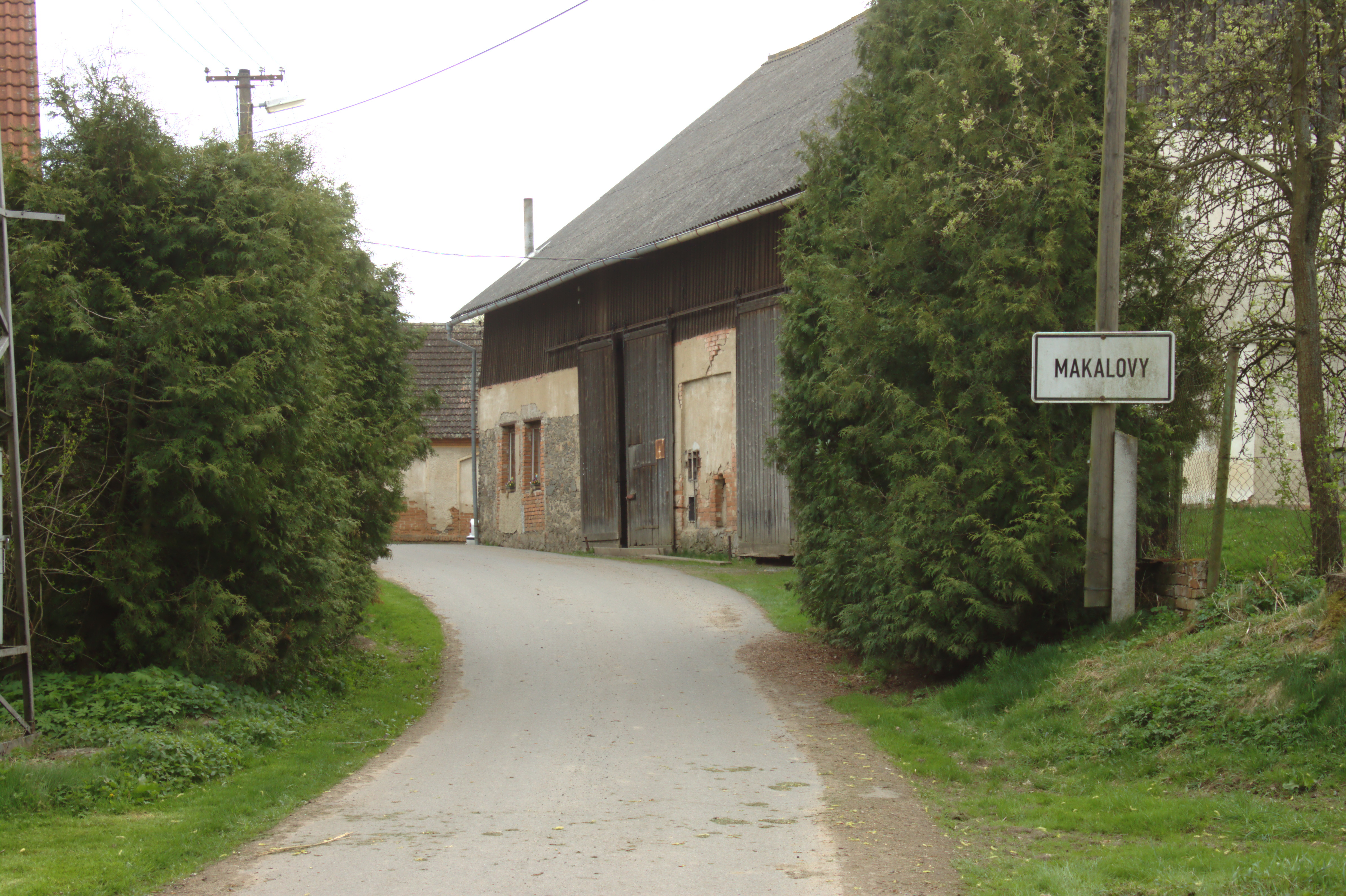 Main and only road in the village of Makalovy, Plzeň Region, CZ